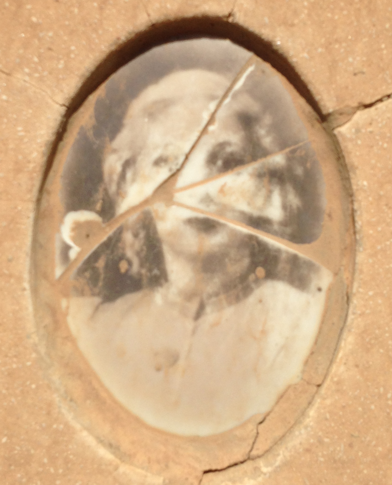 Grave photo of ΣΟΦΙΑ ΒΟΓΙΑΖΙΔΑΚΗ, who died in 1946 aged 48, in the Greek section of the Christian cemetery in Khartoum, Sudan